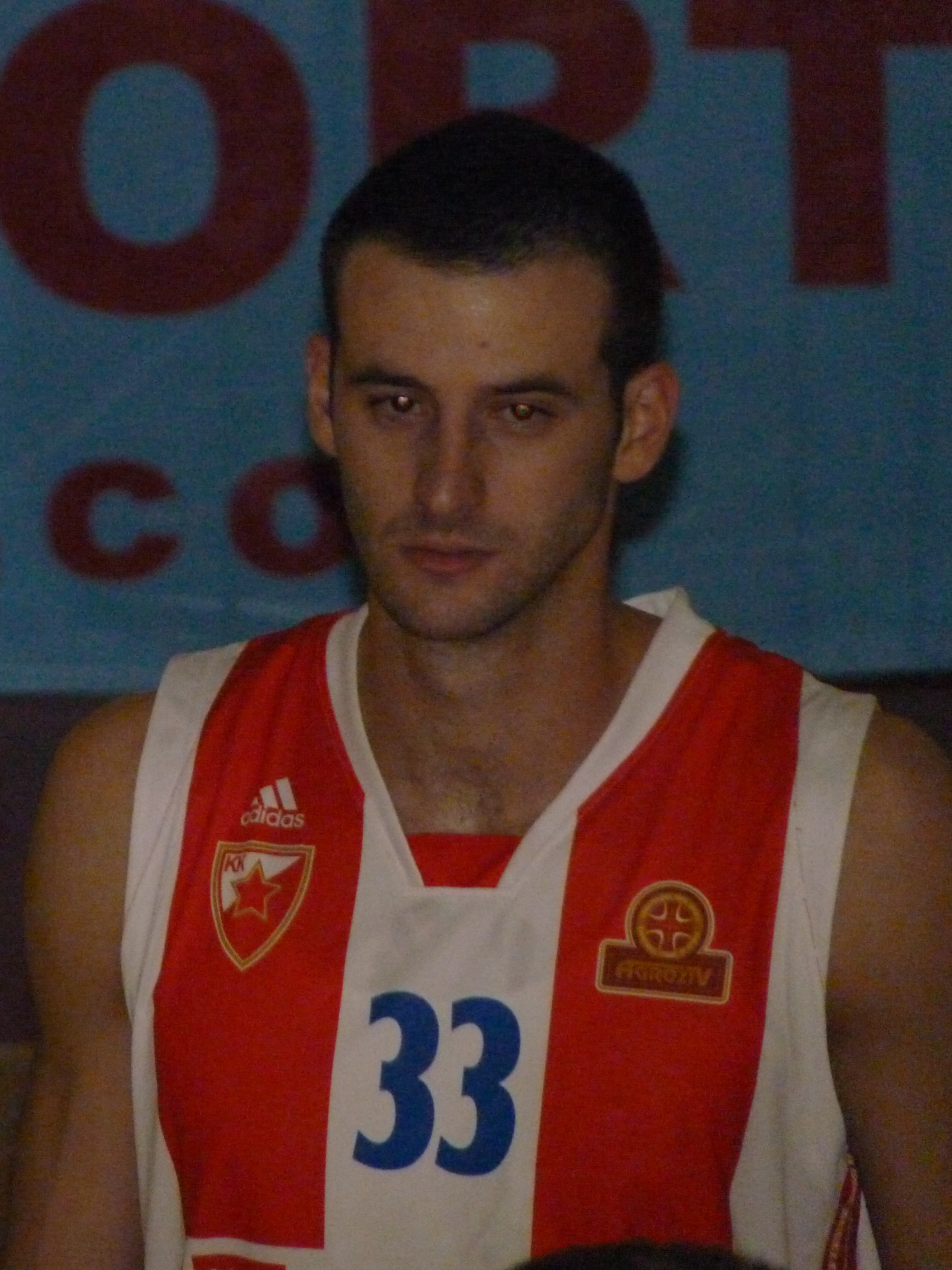 Bors Savovic in Red Star